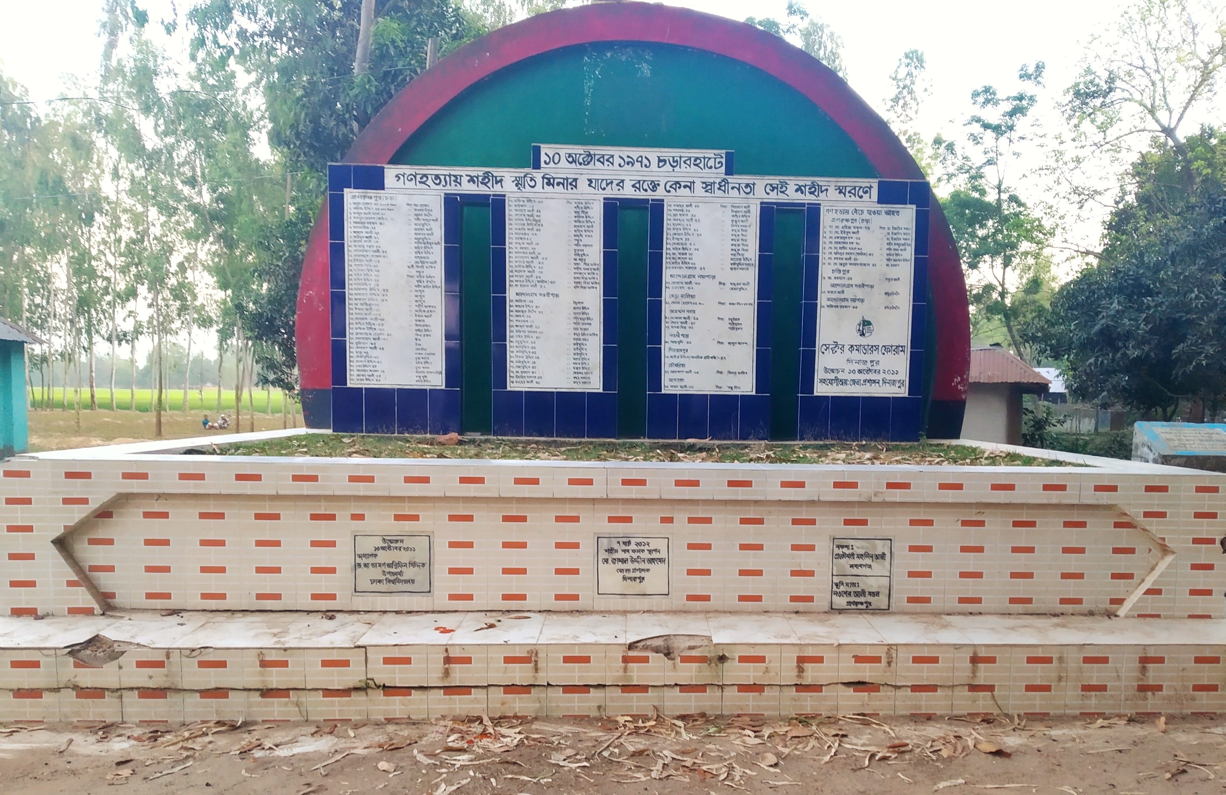 This is Slaughter Place of Bangladesh Liberation War monument where Pakistani Army used to kill Bengali people during Liberation War in 1971.It is located in Nwabgonj Upzilla, Dinajpur, Bangladesh.